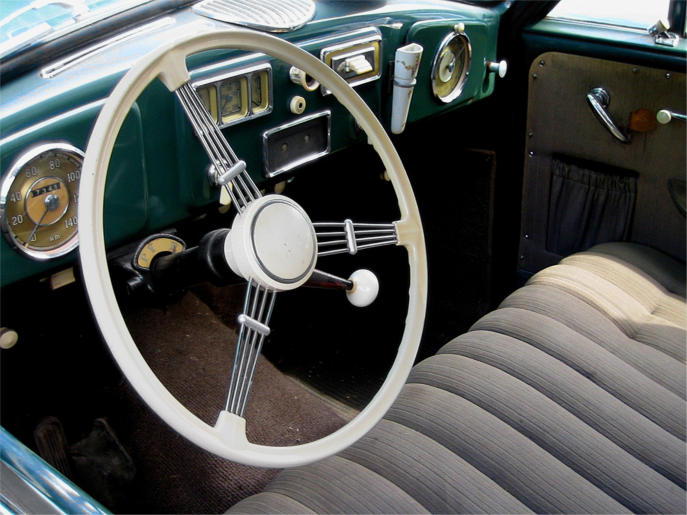 Borgward Hansa 1500 - interior